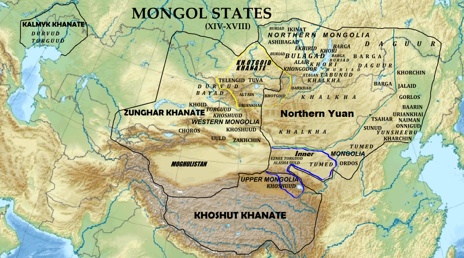 Based on File:Asia laea relief location map.jpg. Data source: "History of Mongolia" 2003